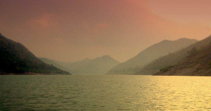 this photo was taken in early hours in bank of Godavari at papiHills Andrapradesh